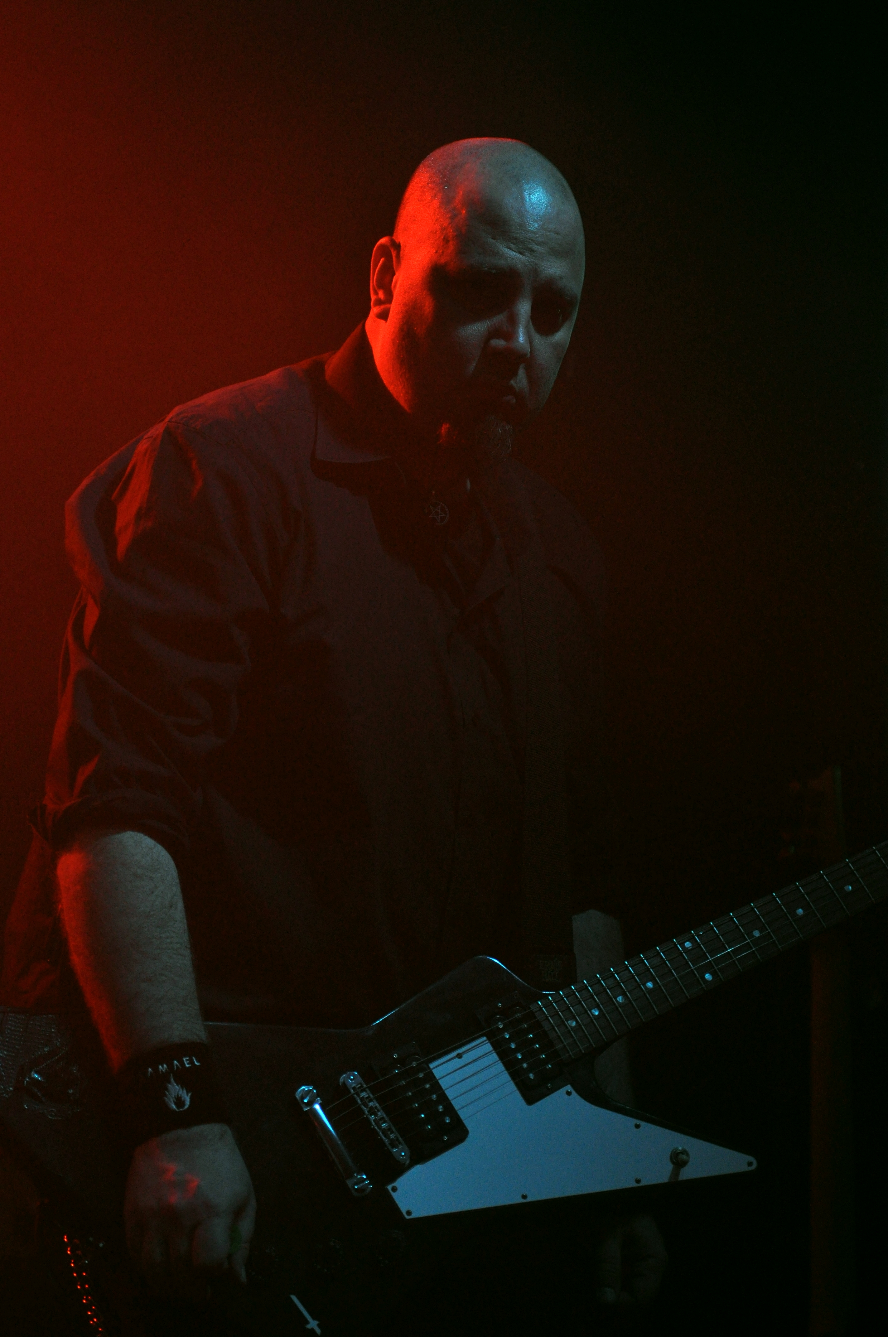 The German Band Diorama at e-tropolis 2013, Berlin